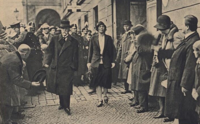 Alice Masaryková and her father go to the polls (Pestrý týden, 1929)